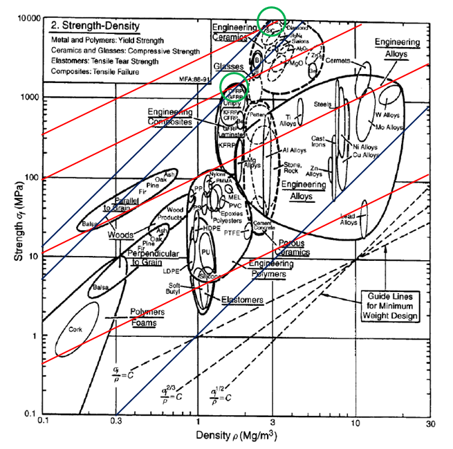 Ashby Chart